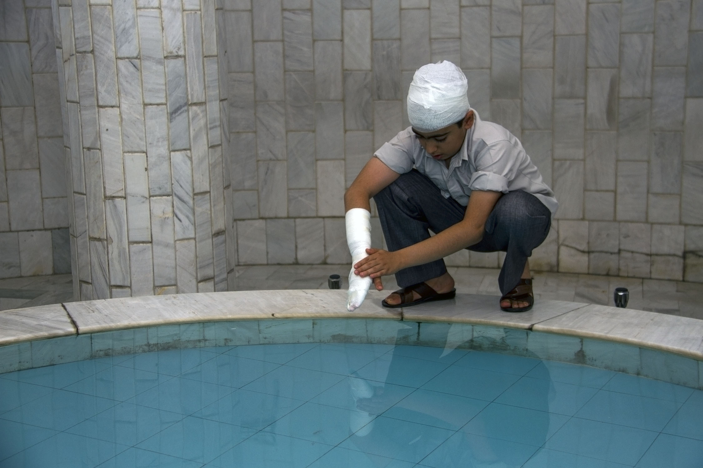 Biologically, a child (plural: children) is a human being between the stages of birth and puberty.